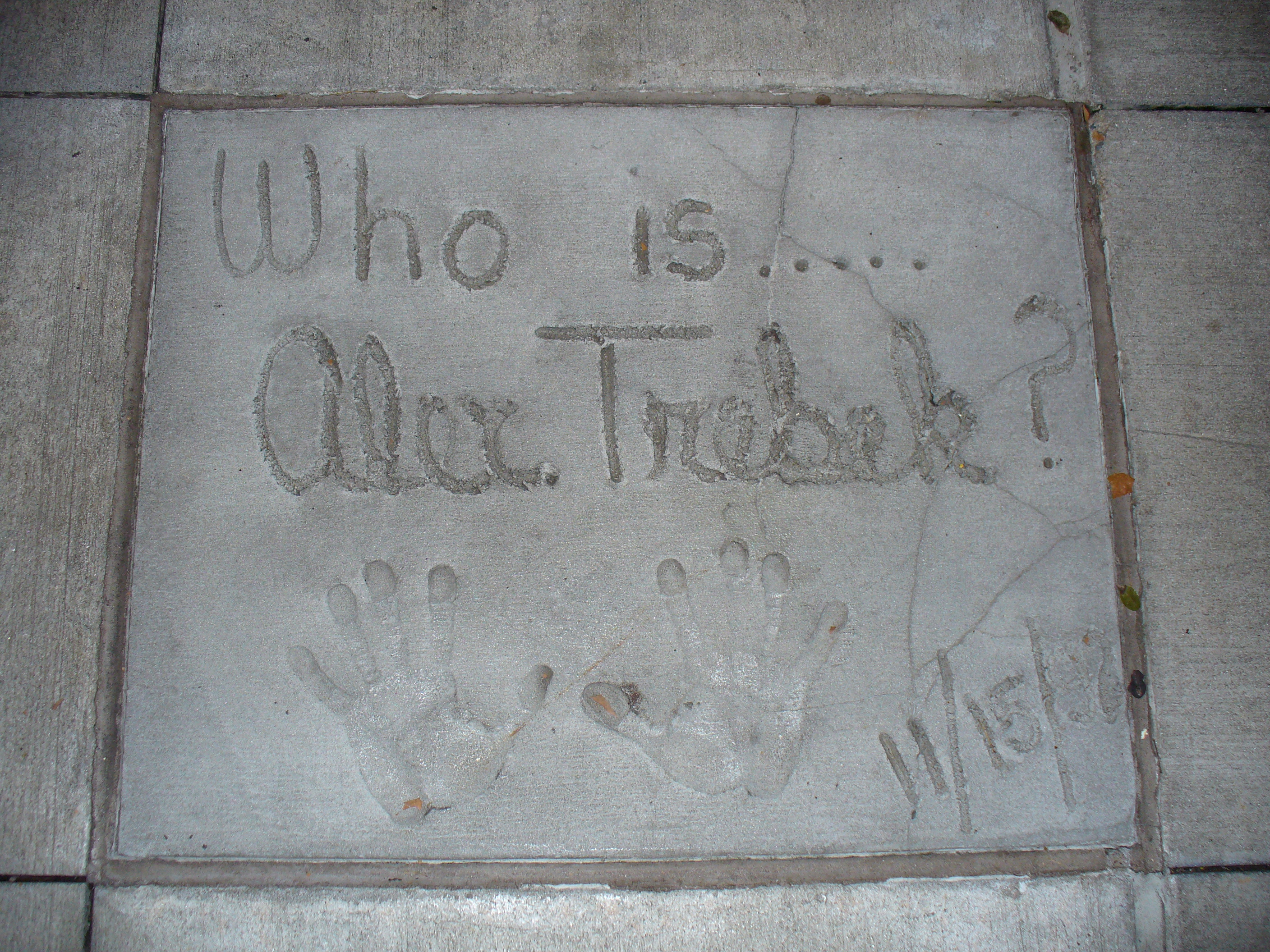 The handprints of Alex Trebek in front of Hollywood Hills Amphitheater at Walt Disney World's Disney's Hollywood Studios theme park.